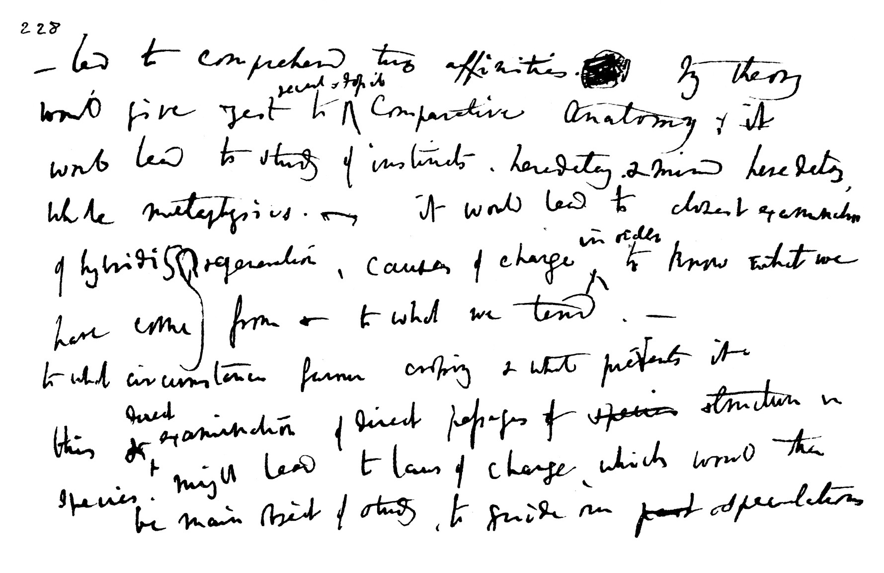 Facsimile of a page from a note-book of 1837, by Charles Darwin. Transcription (from source): "led to comprehend true affinities. My theory would give zest to recent & Fossil Comparative Anatomy : it would lead to study of instincts, heredity, & mind heredity, whole metaphysics, it would lead to closest examination of hybridity & generation, causes of change in order to know what we have come from & to what we tend, to what circumstances favour crossing & what prevents it, this & direct examination of direct passages of structure in species, might lead to laws of change, which would then be main object of study, to guide our speculations."